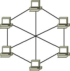 network topology